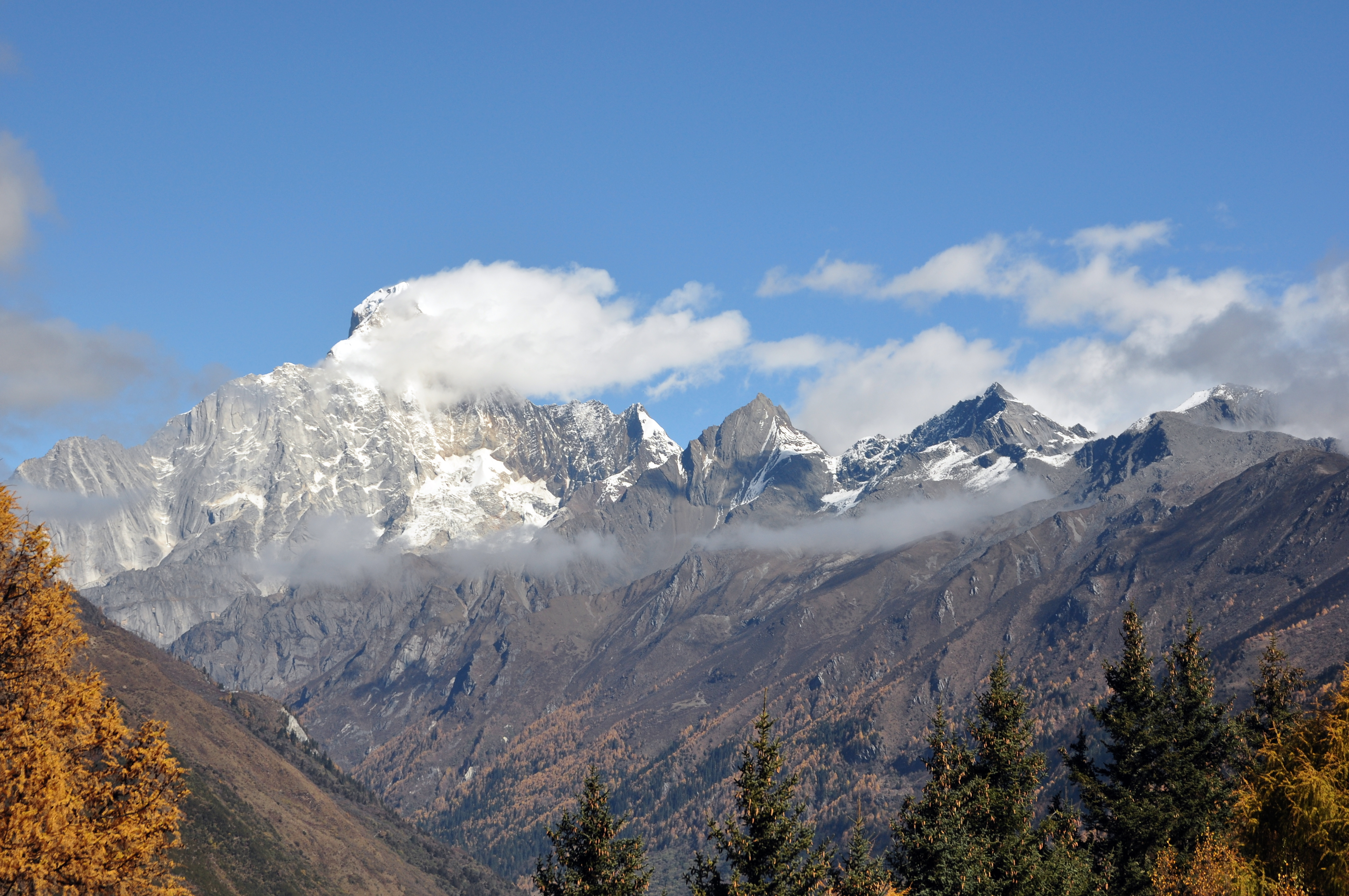 Four Sisters Mountain